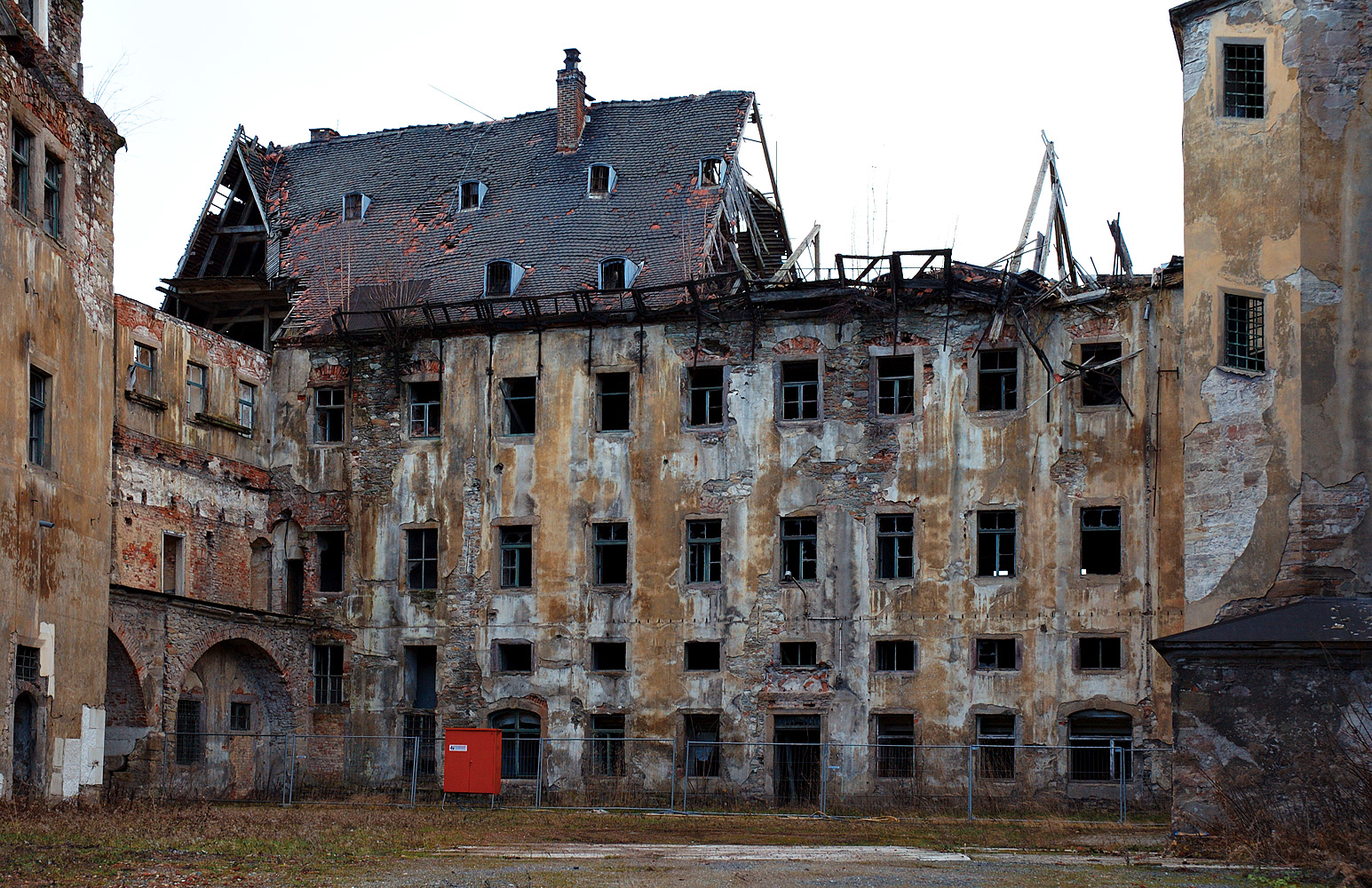 This image shows the ruin of the castle Osterstein in Zwickau (Saxony, Germany).